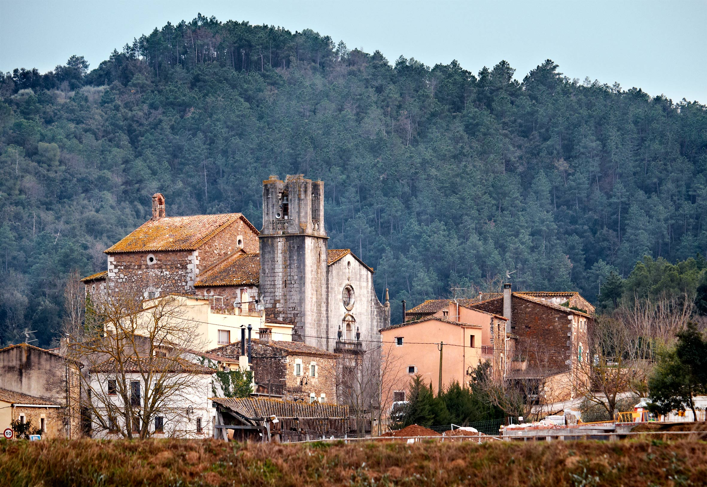 Juià general landscape (Catalonia, Spain)